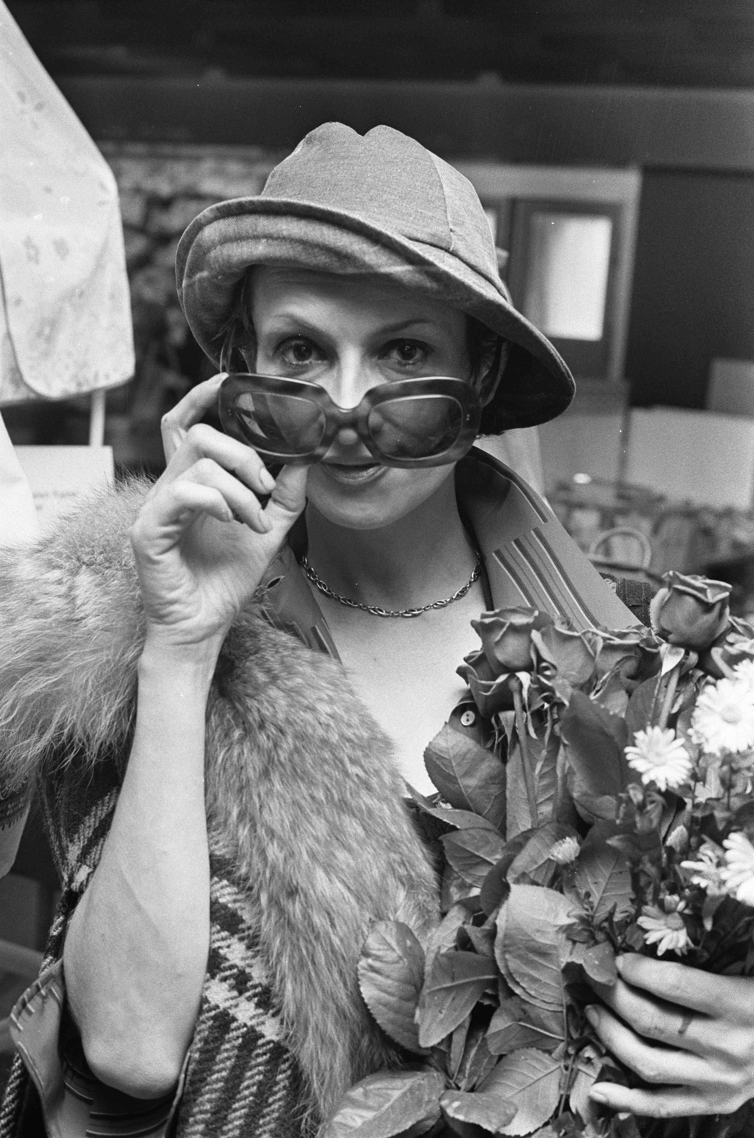 French singer Barbara (Monique Serf) in the Netherlands, Oct. 1973